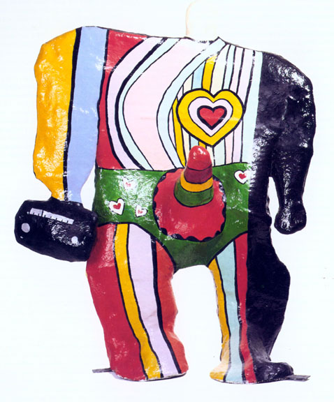 Niki de Saint Phalle, Adam, image from the Macedonian Museum of Contemporary Art, Thessaloniki, Central Macedonia, Greece